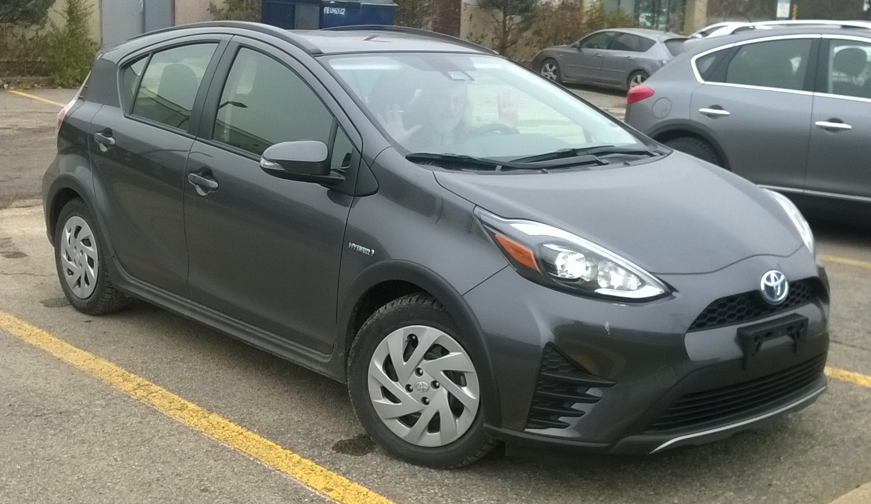 2018 Toyota Prius c photographed in Pointe-Claire , Québec, Canada.